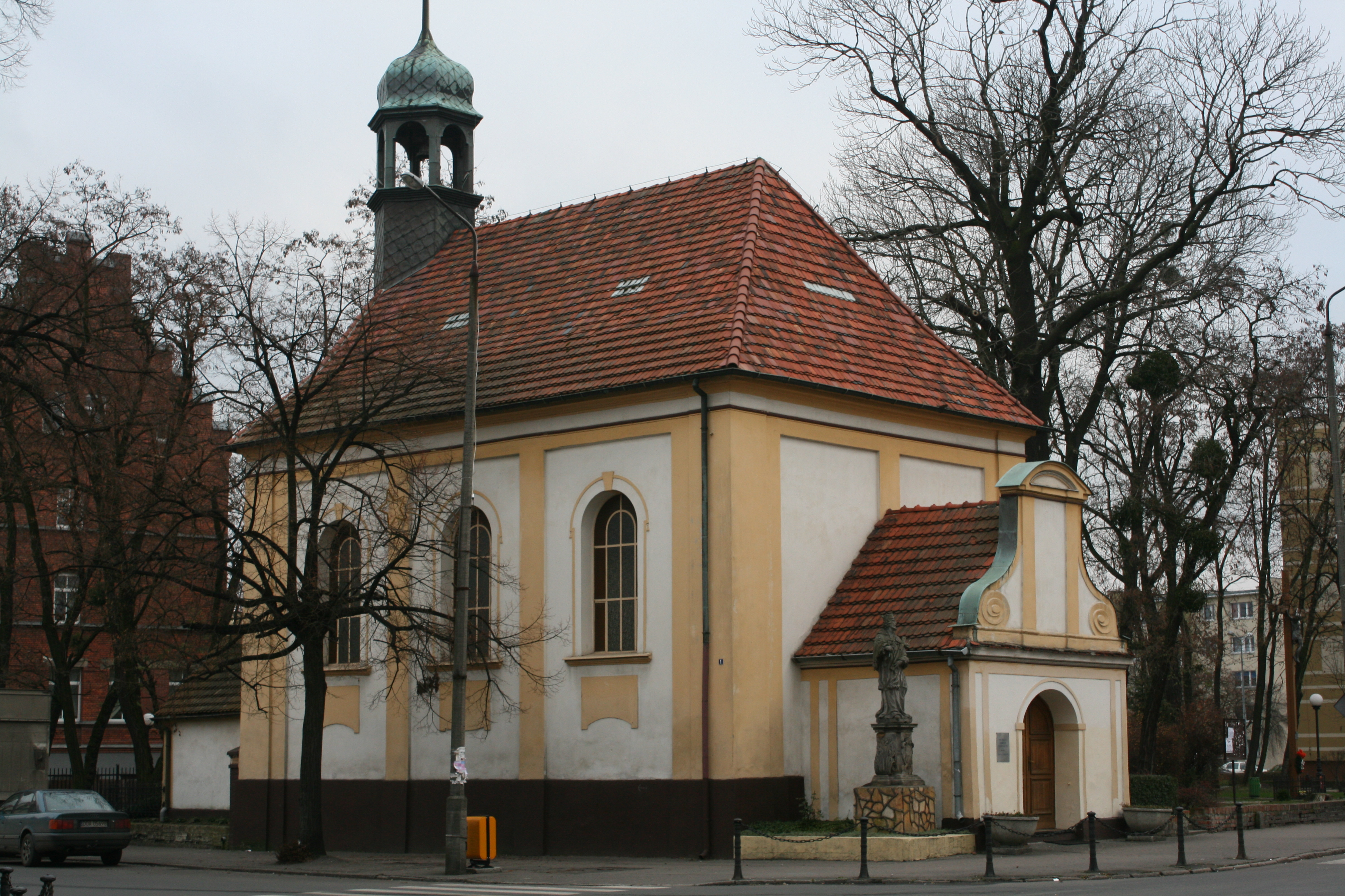 Saint Roch church in Oława, Poland